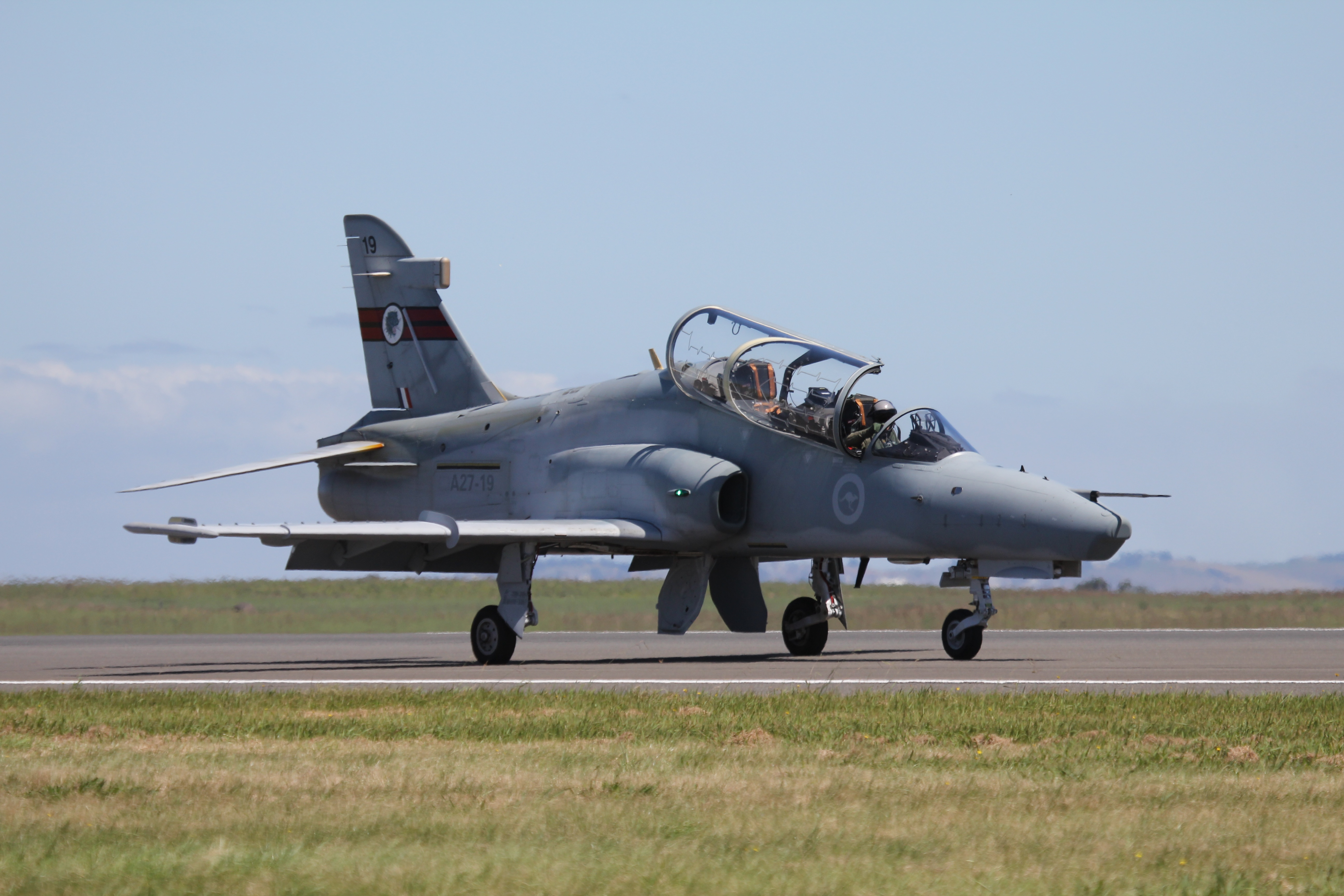 A Royal Australian Air Force (RAAF) Hawk 127 training jet at the 2011 Avalon Air Show. The aircraft is assigned to No. 76 Squadron RAAF.